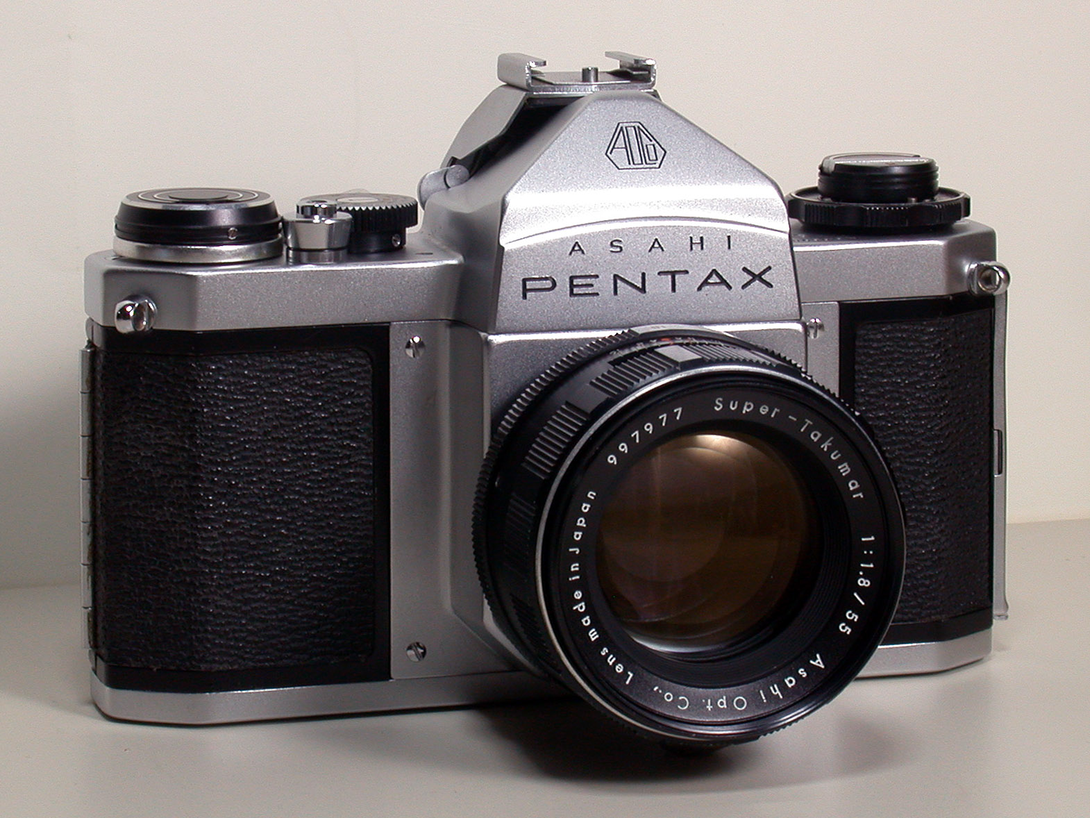 Pentax SV w/55mmF1.8